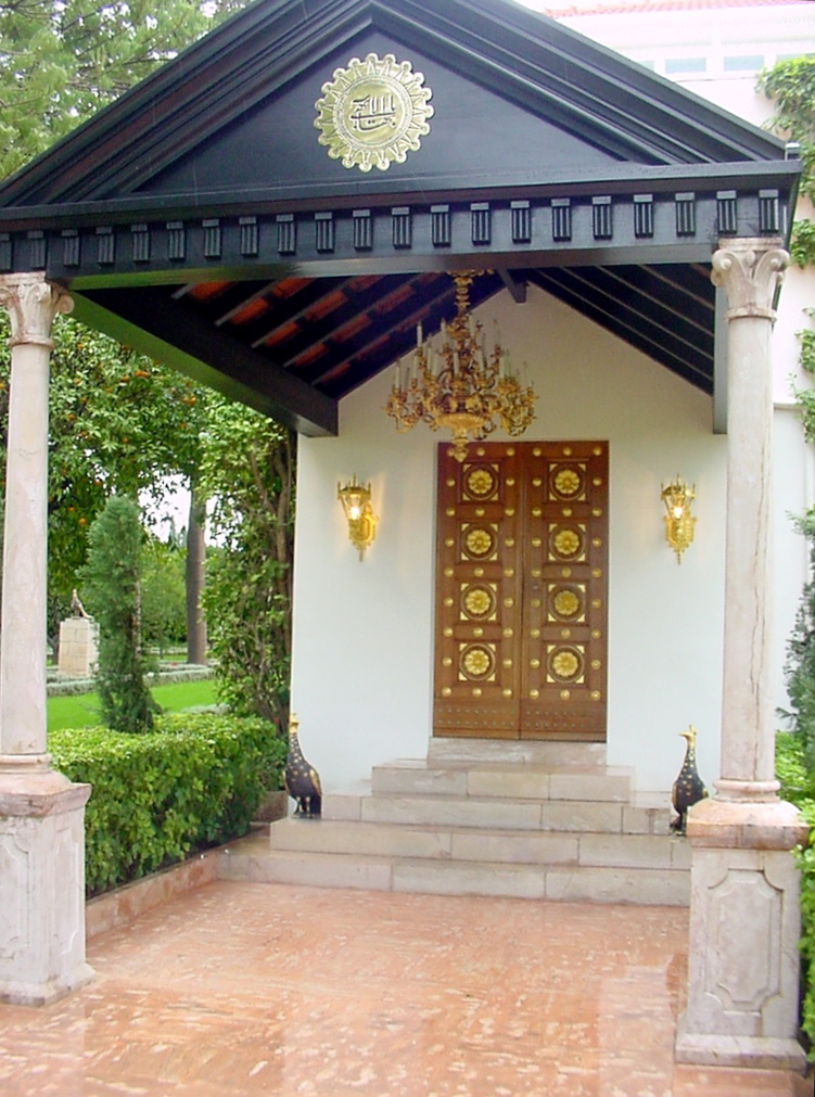 view towards main door of the Shrine of Bahá'u'lláh